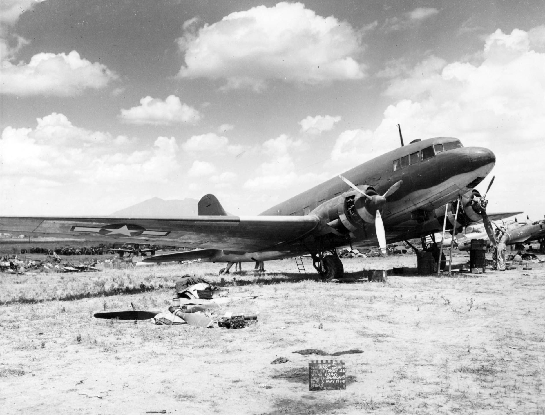 A captured Japanese Nakajima Type L2D2-3 "Tabby" (s/n 6240) Clark Airfied, Luzon, Philippines, in May 1945. Note Mount Arayat in the background.